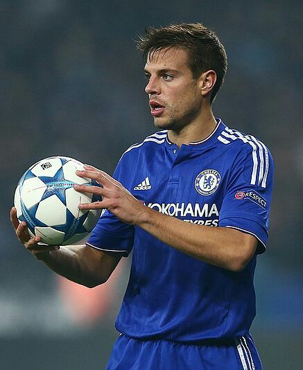 20.10.2015 Kyiv, Olimpiyskiy National Sports Complex Champions League. Group stage. FC Dynamo Kyiv - Chelsea - 0:0 Chelsea (4-2-3-1): Begovic; Zouma, Cahill, JT (c), Azpilicueta; Ramires, Matic; Willian, Fabregas (Oscar 75), Hazard; Diego Costa. Unused subs Blackman, Baba, Mikel, Traore, Kenedy, Falcao. Booked Zouma 67 Dynamo Kiev (4-1-4-1): Shovkovskiy; Danilo Silva, Khacheridi, Dragovic, Vida; Rybalka; Yarmolenko, Sydorchuk, Buyalskiy (Garmesh 83), Gonzalez; Kravets (Junior Moraes 78). Unused subs Rybka, Antunes, Petrovic, Gusev, Miguel Veloso. Booked Buyalskiy 65